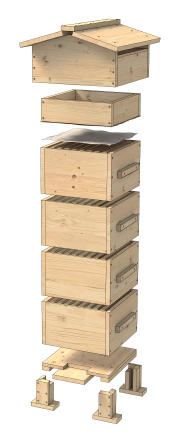 Volksbeute